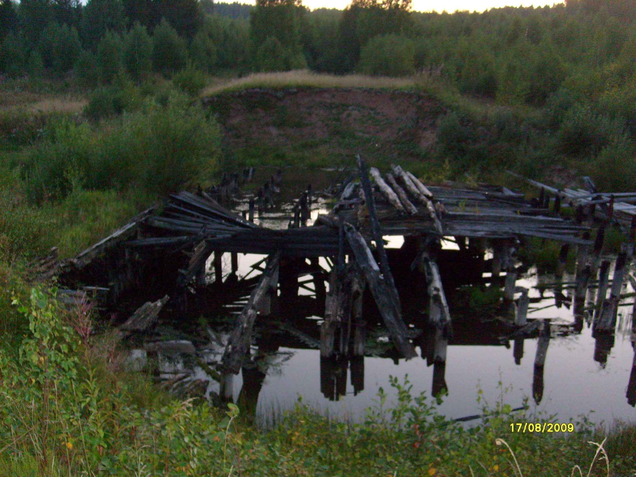 Remains of Dam, Parfenyevsky District, Kostroma Oblast, Russia